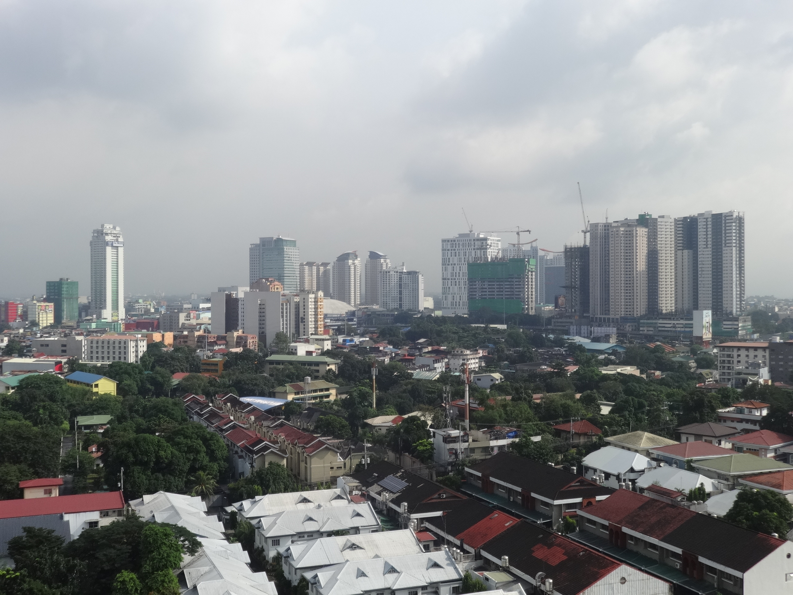 Cubao area and Araneta Center in Quezon City